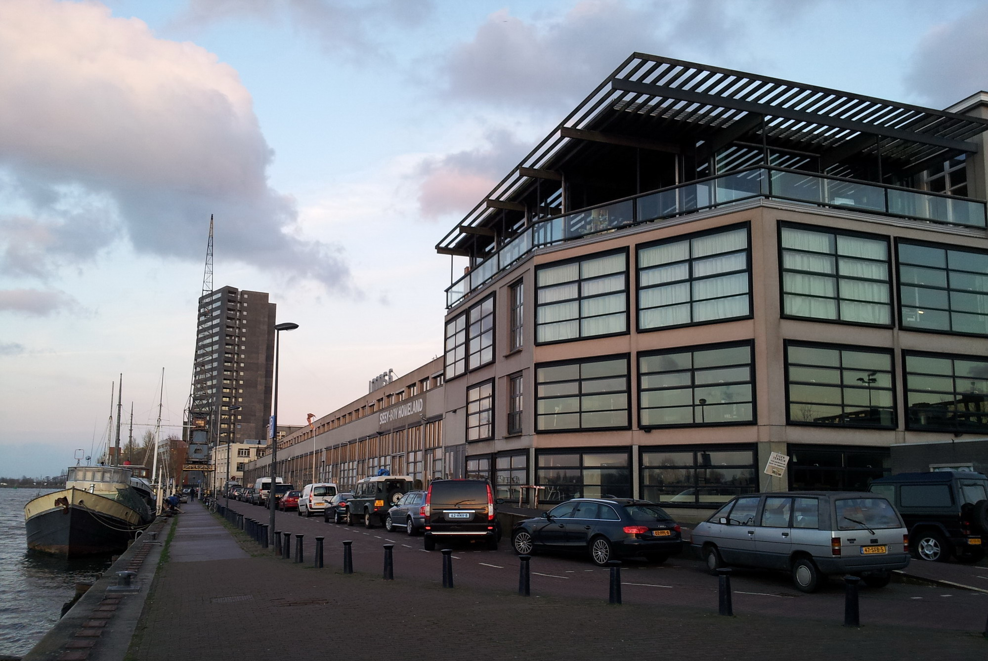 Amsterdam, the Netherlands. View towards the East of Surinamekade with 'Loods 6' building and a residential tower designed by Wiel Arets, on KNSM Island in the Eastern Docklands part of Amsterdam. Port crane 2868.